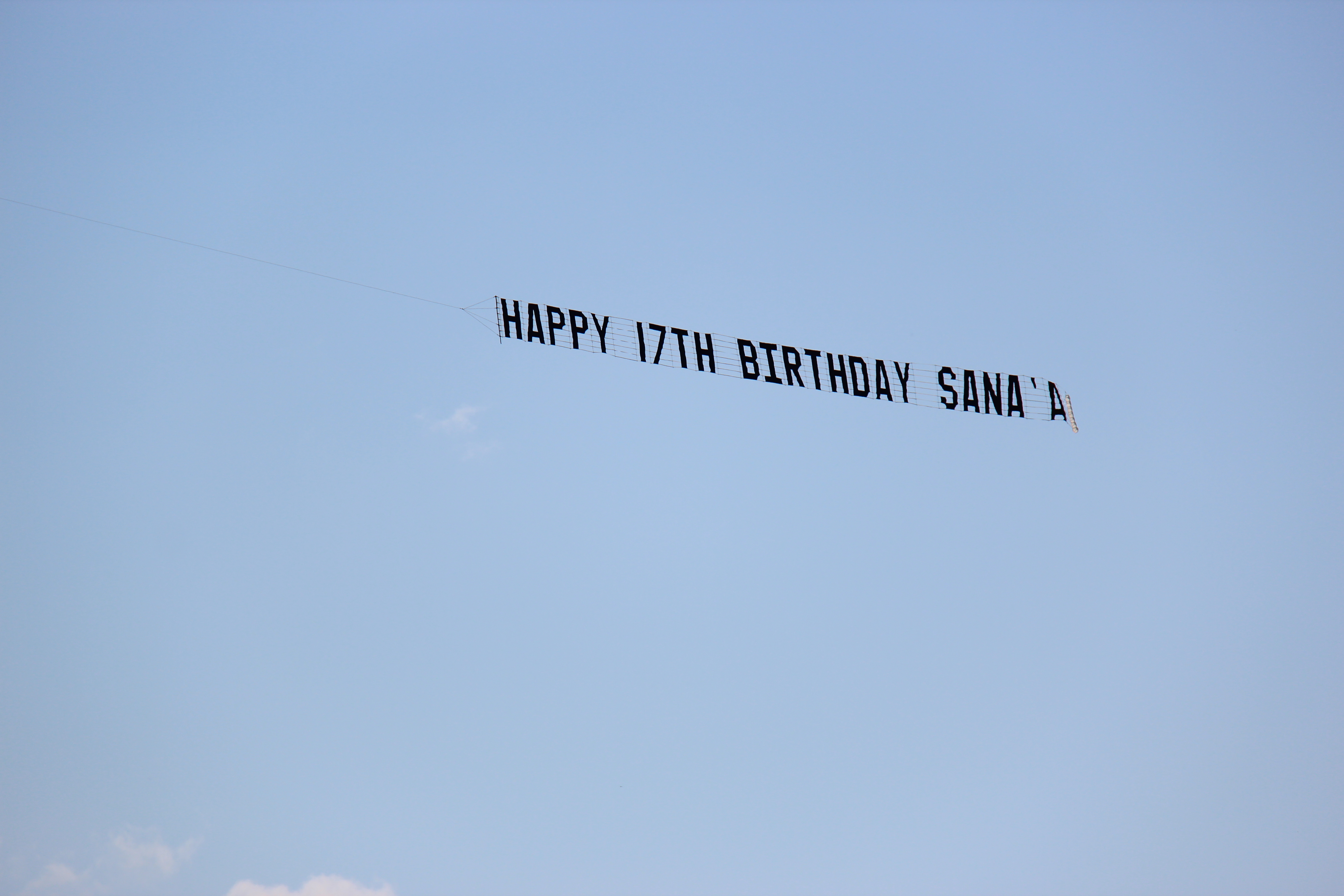 Shows a happy birthday banner